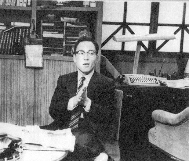 Kenichi Takemura